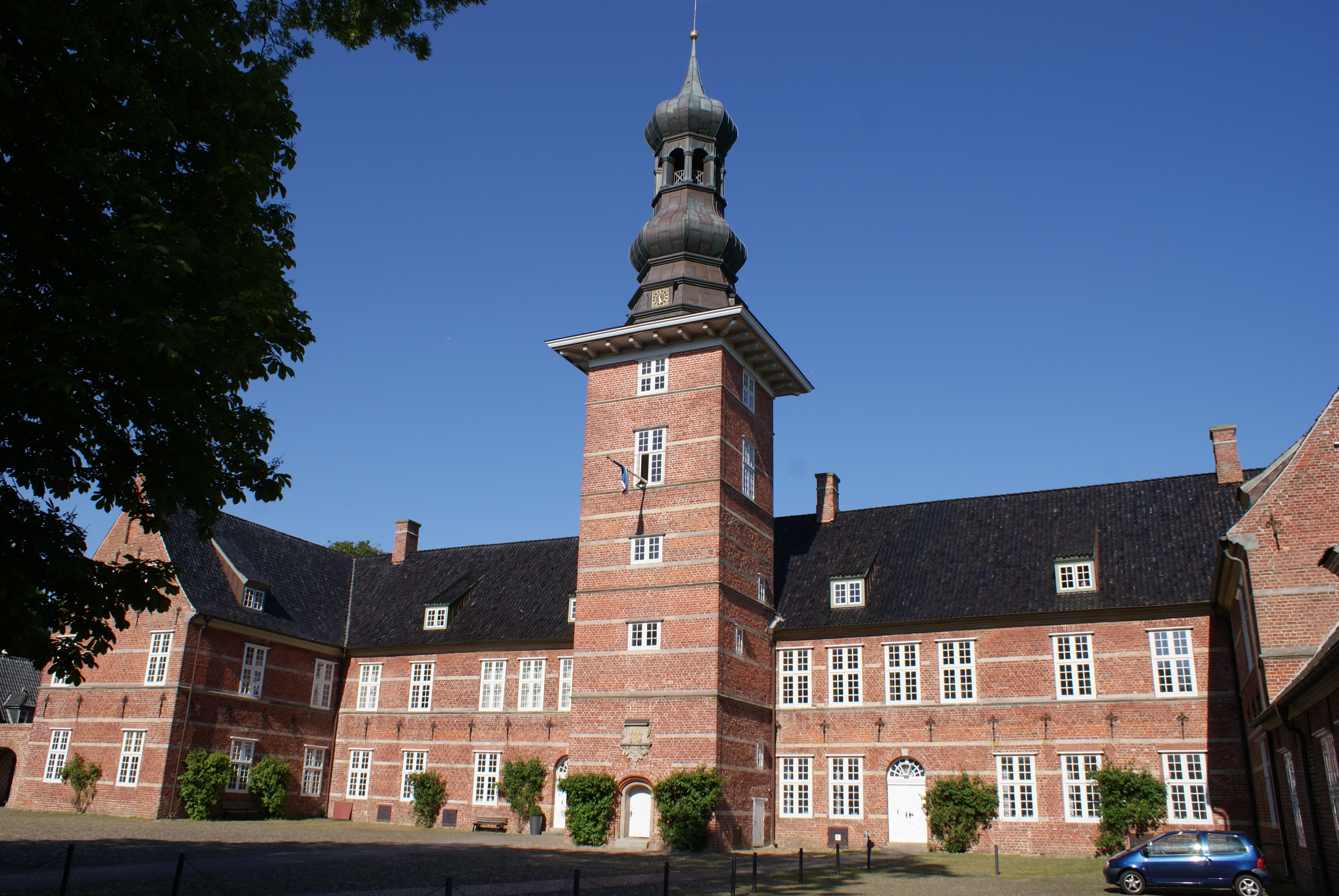 Husum Castle, the Courtyard